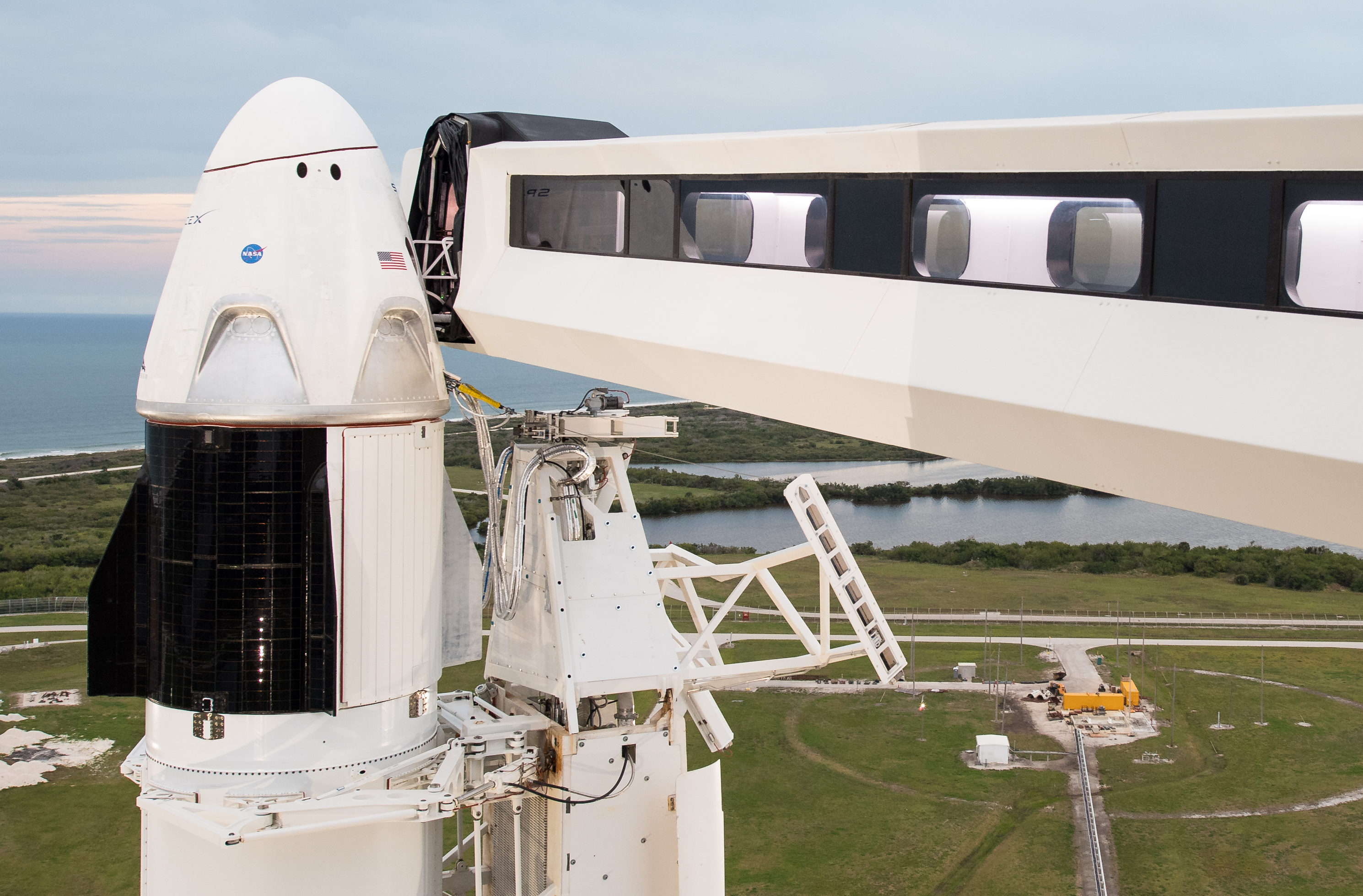 The SpaceX Crew Dragon spacecraft is seen atop the company's Falcon 9 rocket on the launch pad of Launch Complex 39A before the early Sunday morning launch of the Demo-1 mission, Friday, March 1, 2019 at the Kennedy Space Center in Florida. The Demo-1 mission launched at 2:49am ET on Saturday, March 2 and was the first launch of a commercially built and operated American spacecraft and space system designed for humans as part of NASA's Commercial Crew Program. The mission will serve as an end-to-end test of the system's capabilities. Photo Credit: (NASA/Joel Kowsky)